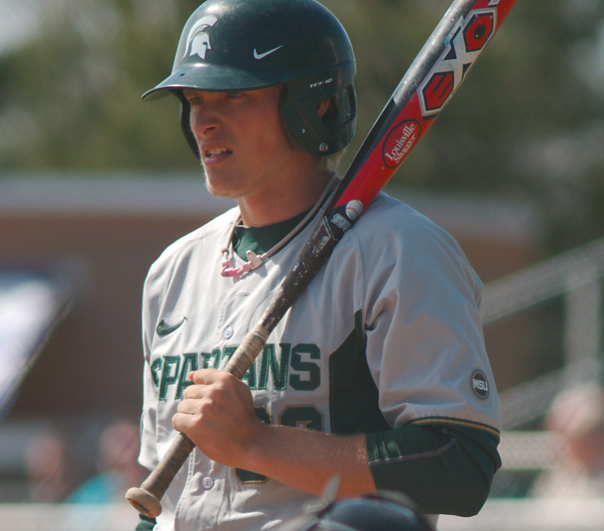 Cam Gibson with the Michigan State Spartans during a 2014 game at Western Michigan.